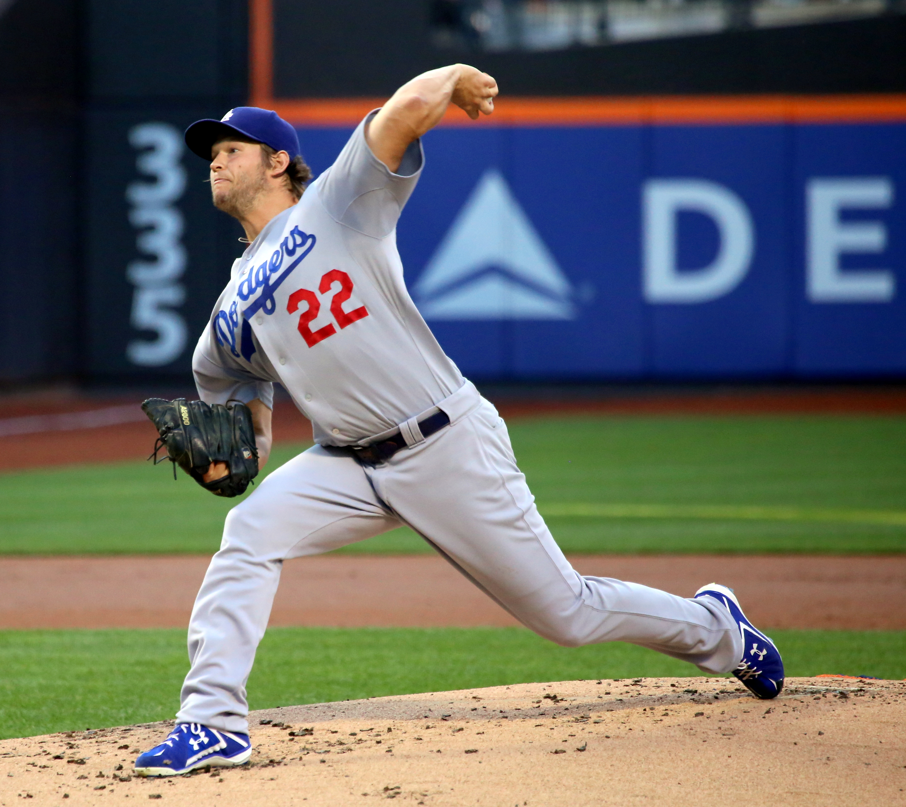 Clayton Kershaw